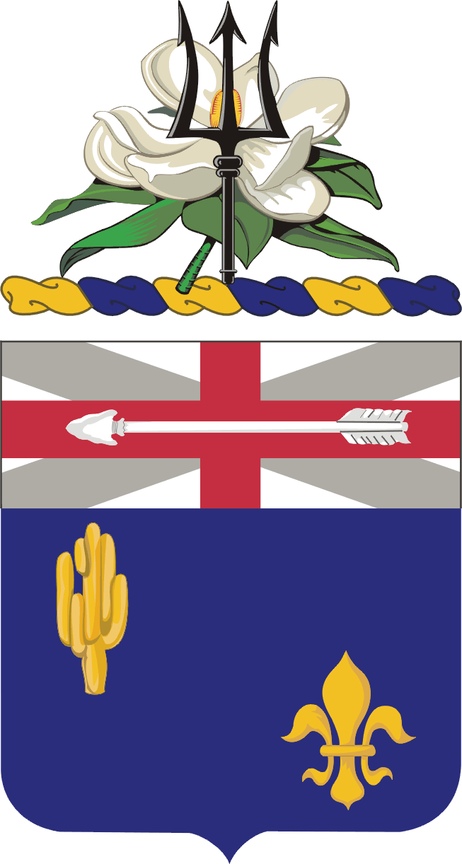 155 Infantry Regiment Coat of Arms